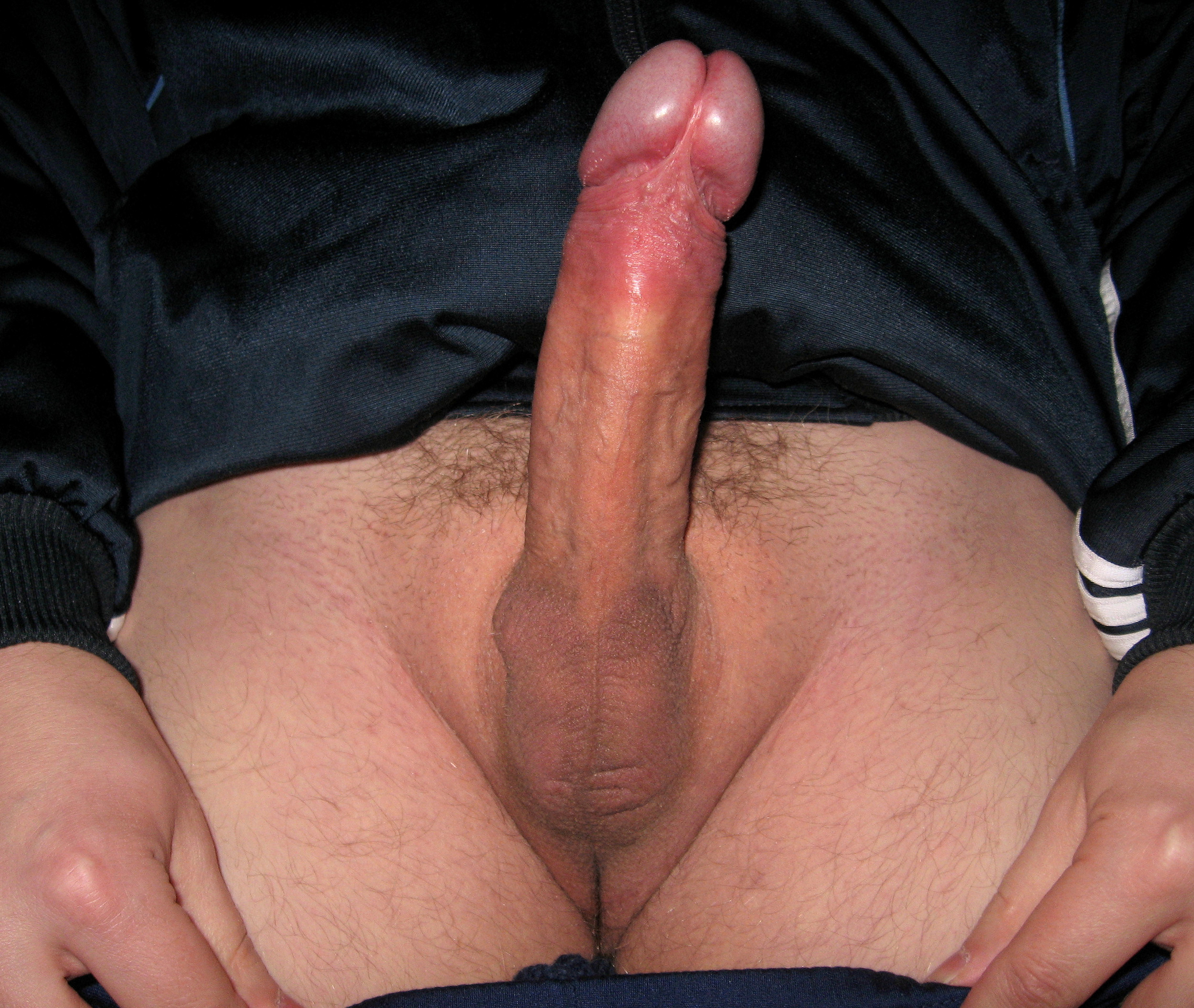 This male has had a tendency of his testicles to slip or retract into the inguinal canals since childhood. This usually happens in cold temperatures or during strong sexual arousal when the scrotum tightens. In this image the male (standing) is revealing his genitals during obvious sexual arousal with strong erection and retracted testicles (the testicles can be seen as bulges on both sides of the empty scrotum). In addition to the sexual arousal the male was greatly excited of exposing his sexually aroused genitals in front of the camera, this may have increased the possibility of his testicles to retract. This male finds testicular retraction slightly unpleasant but it's not harmful. Occasional testicular retraction is not uncommon.